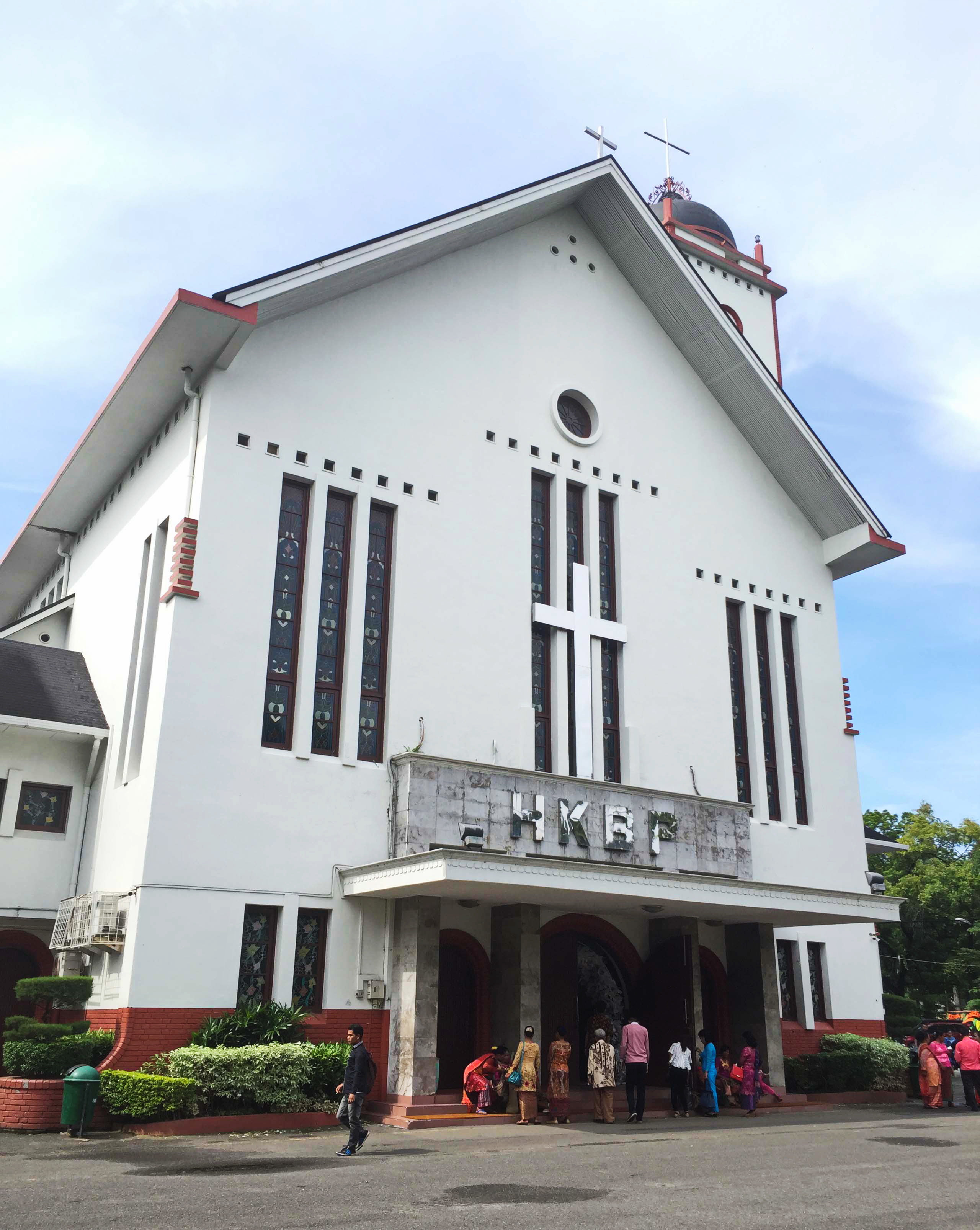 HKBP Jl. Jend. Sudirman, church in Jati, Medan Maimun, Medan